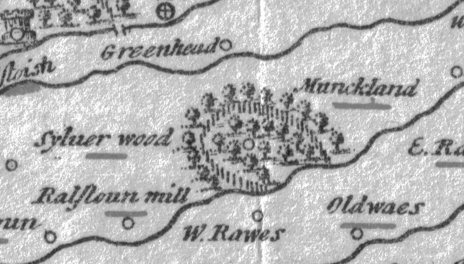 A part of the Pont Map of Cunninghame, showing Silverwood ands